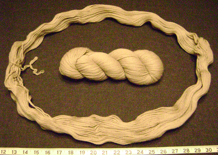 Two hanks of the same wool, one coiled and the other uncoiled. A tie is visible at the left in the uncoiled hank.